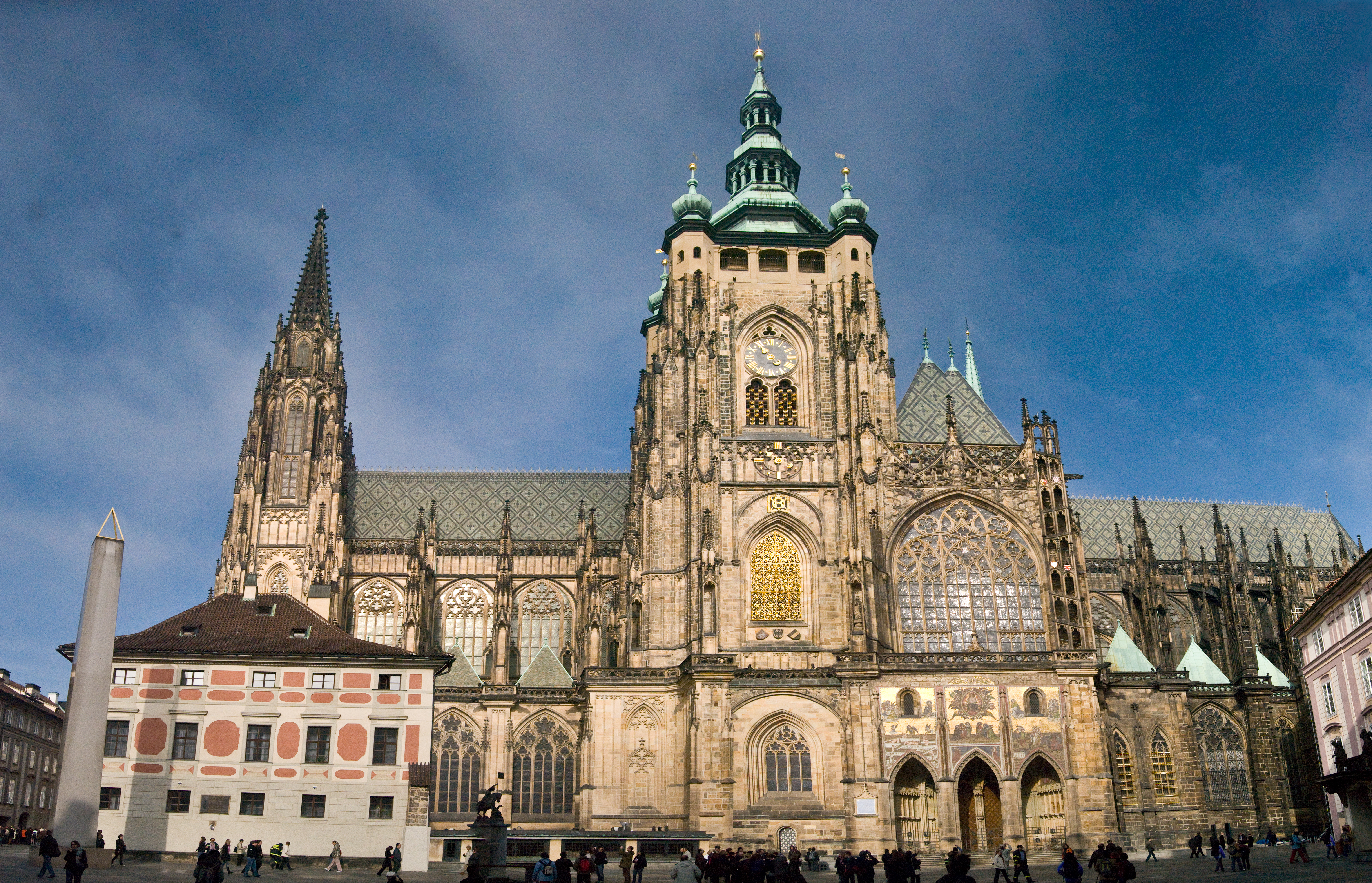 Prague, St. Vitus Cathedral, south elevation